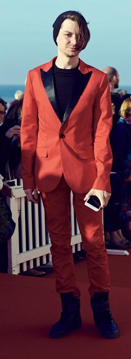 Benjamin Lemaire attends to Cabourg Festival 2016